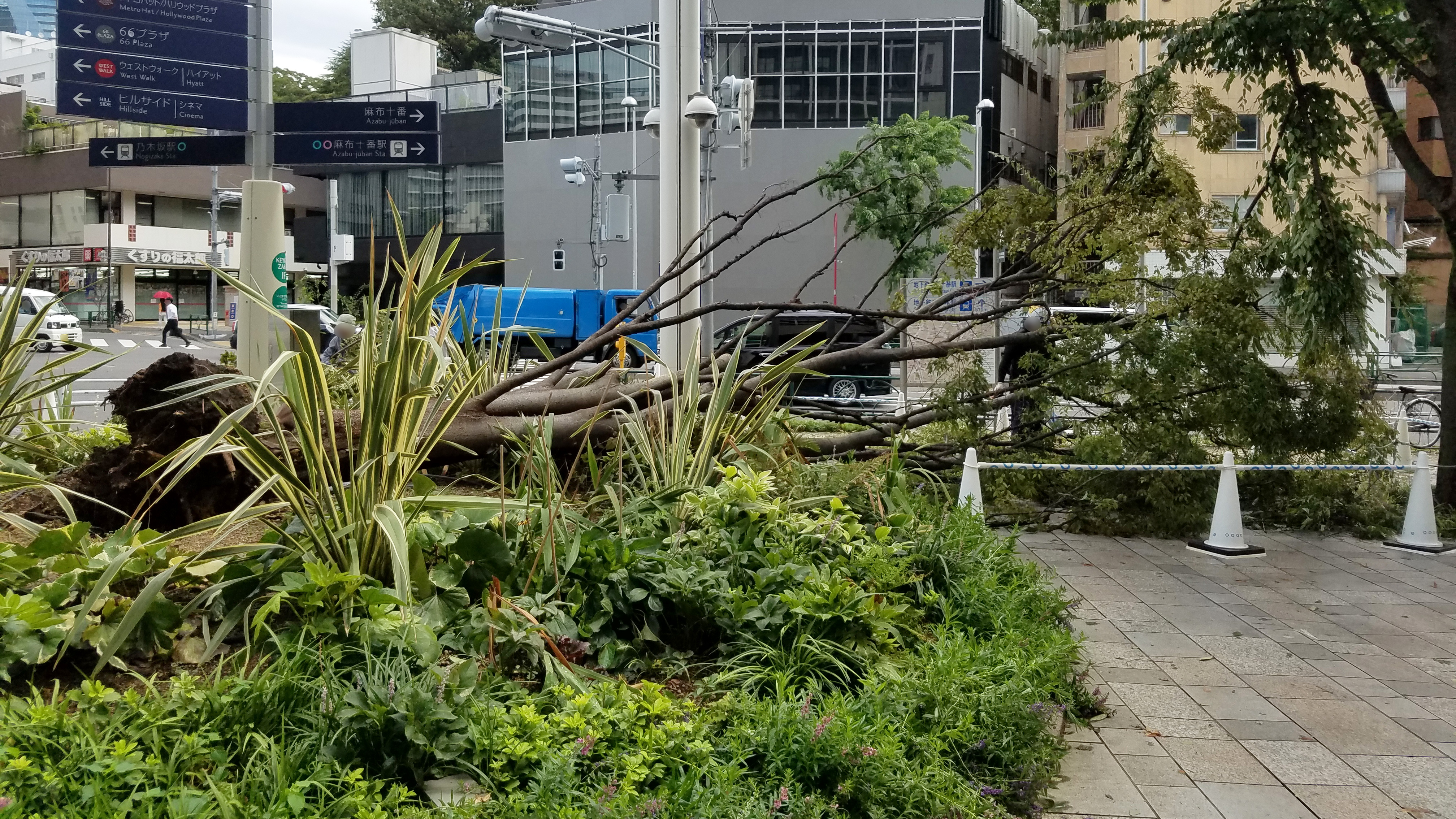 A tree having fallen down in the Typhoon Faxai in Roppongi 6-chome, Minato city, Tokyo, Japan